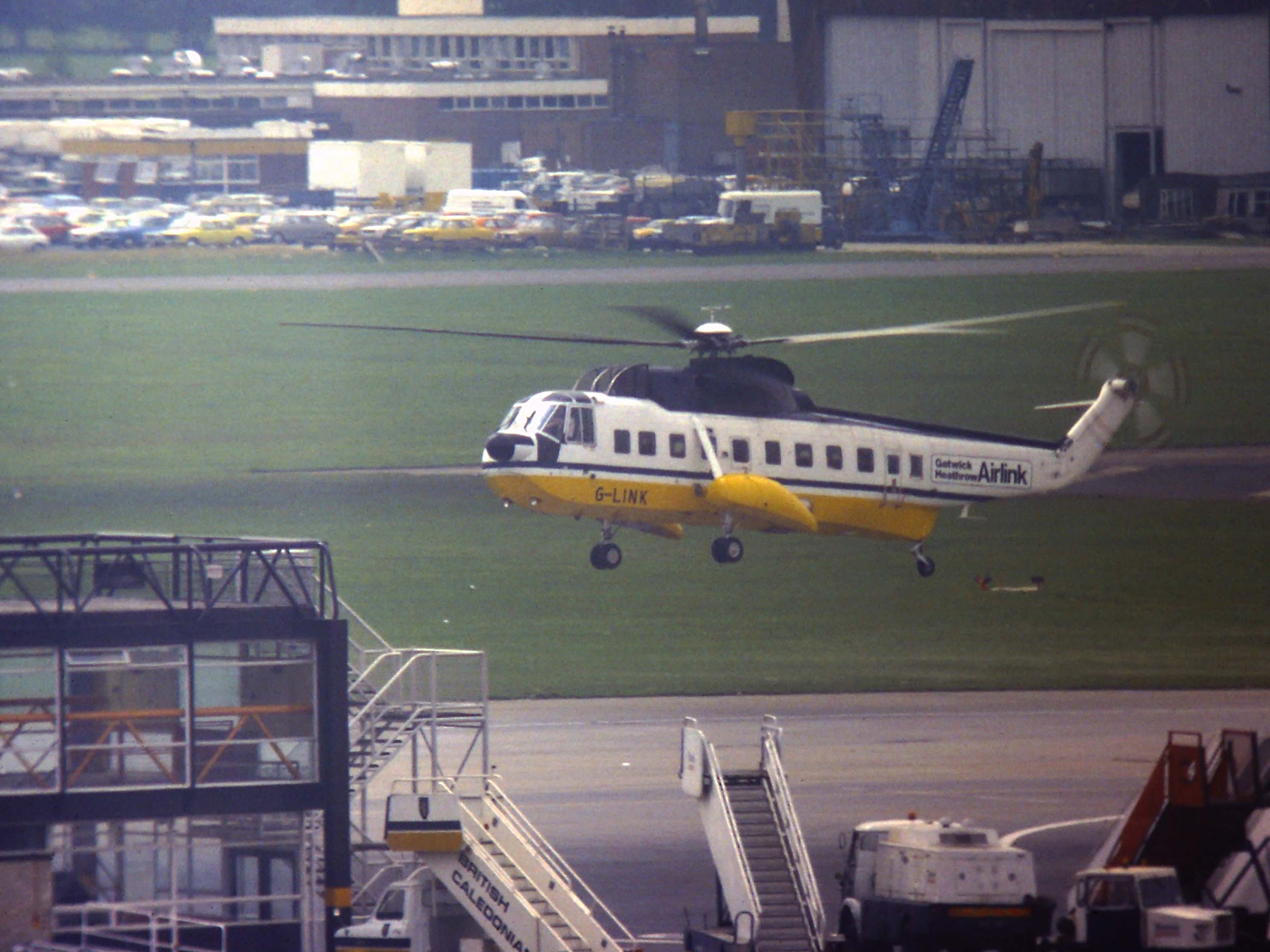 Gatwick - Heathrow's 'Airlink' shuttle in the form of Sikorsky S-61N G-LINK caught arriving by the old South Pier at Gatwick sometime in the mid 1980's. Previously this service was flown using Westward Airways twin-engined BN-2A Islanders but as the passenger and baggage loads increased the S-61's were adopted. Weather over the North Downs was often a factor too and these helicopters were fitted with weather radar giving them greater flexibility over their fixed-wing predecessors. However it was never really viable especially with the improved M23/M25 Motorway links. Using the alternative direct bus and coach connections, journeys between the two London Terminals - although slower, were much cheaper and the service was ended. Scanned 35mm Transparency 086 008